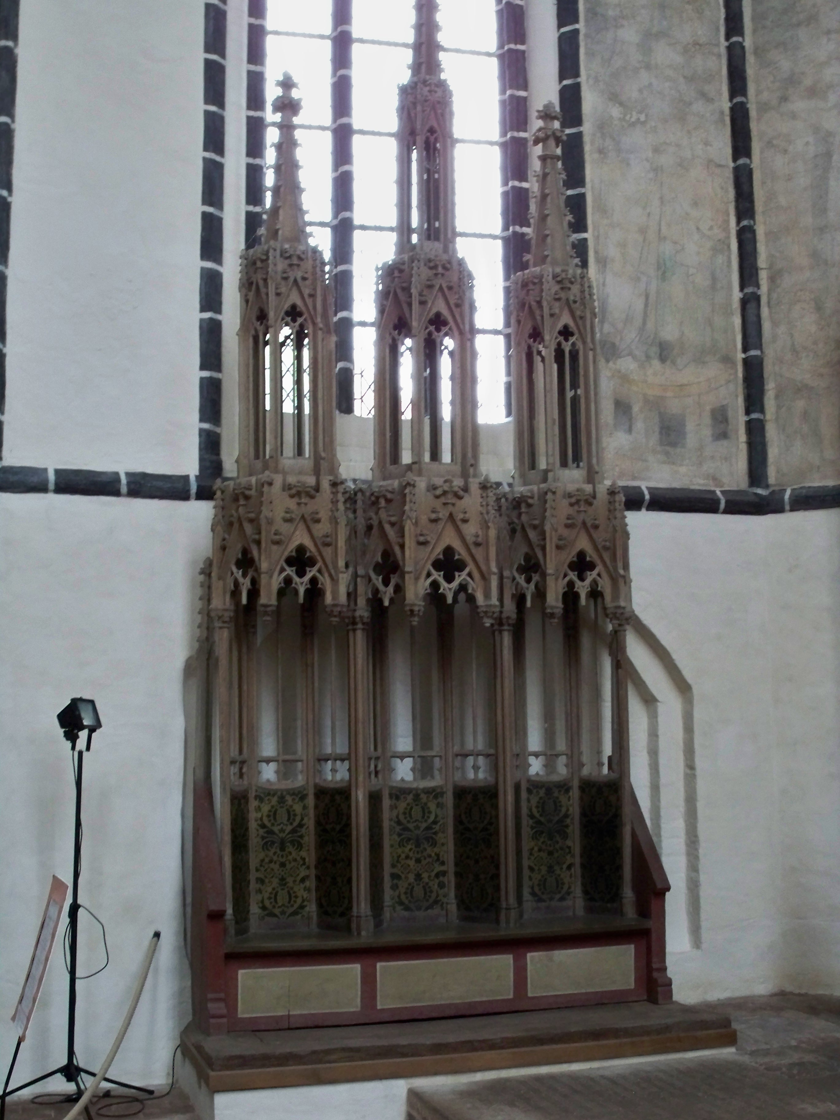 Marienkirche, Salzwedel, interior